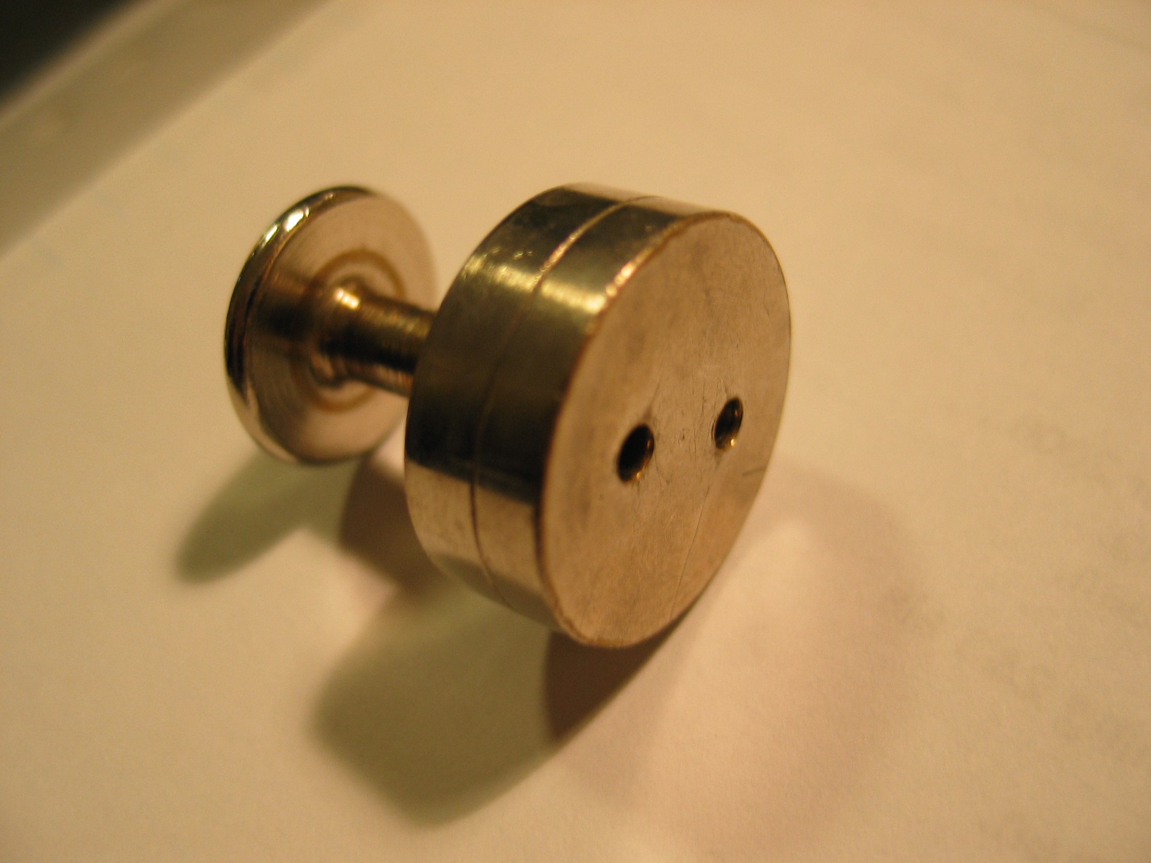 "Zweeds slot": used to close fixationmaterial